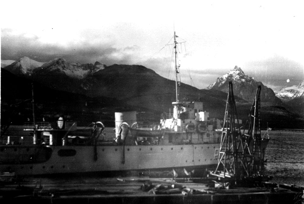 Argentine patrol vessels (corvette) ARA King (P-21) in Ushuaia